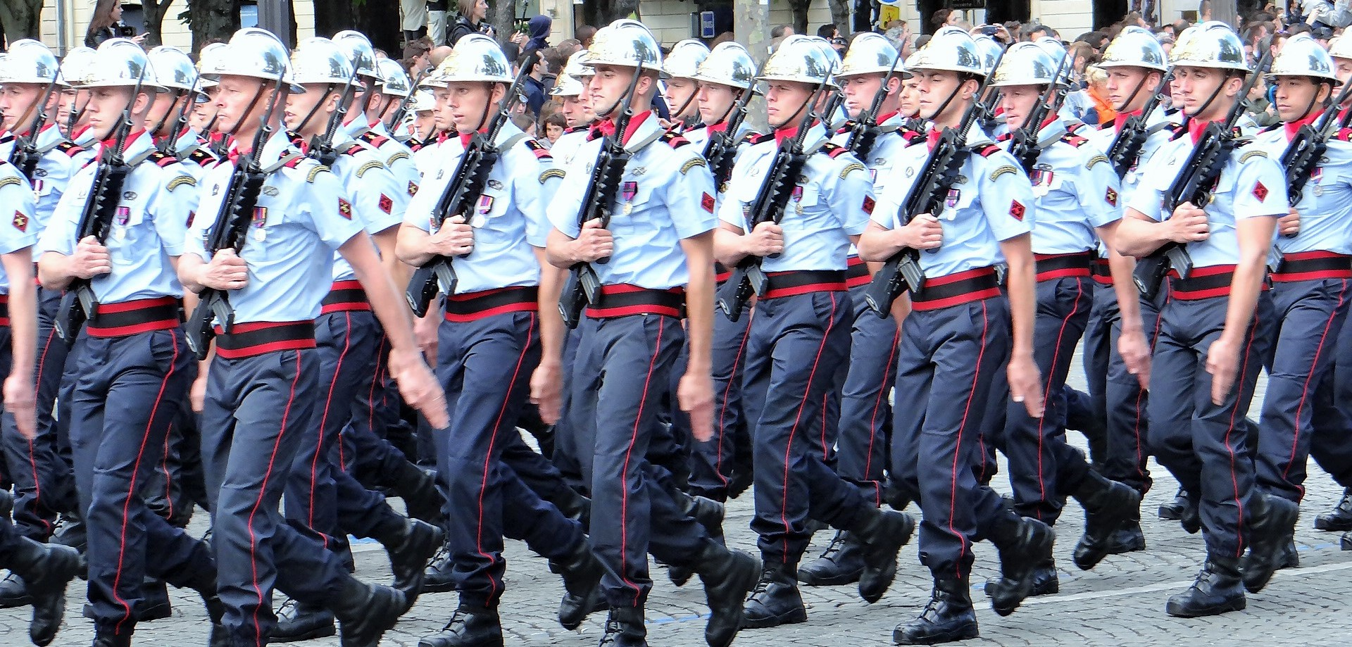 Paris Fire Brigade in the Bastille Day 2016 military parade on the Champs-Élysées in Paris.